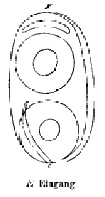 Sketch of the listed „Burgstall“ (german for: former castle, medieval fortification) Räuberberg from 1896 in Görsdorf, a village of the municipality Tauche in the District Oder-Spree, Brandenburg, Germany.